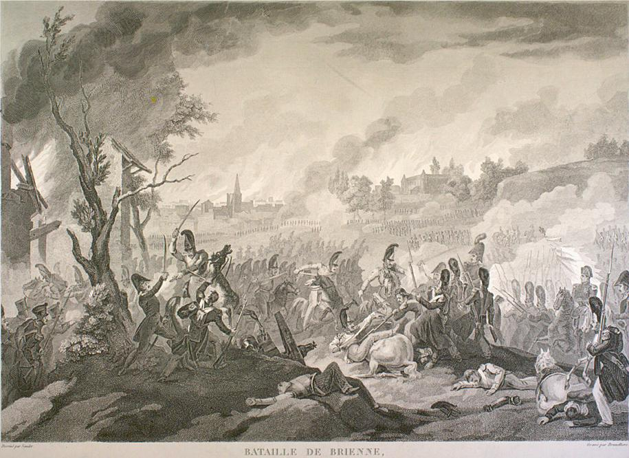 The Battle of Brienne, 29 January 1814. Brienne castle in background being defended successfully by the French from russians. Engraving, Pennington Catalogue p. 3027.